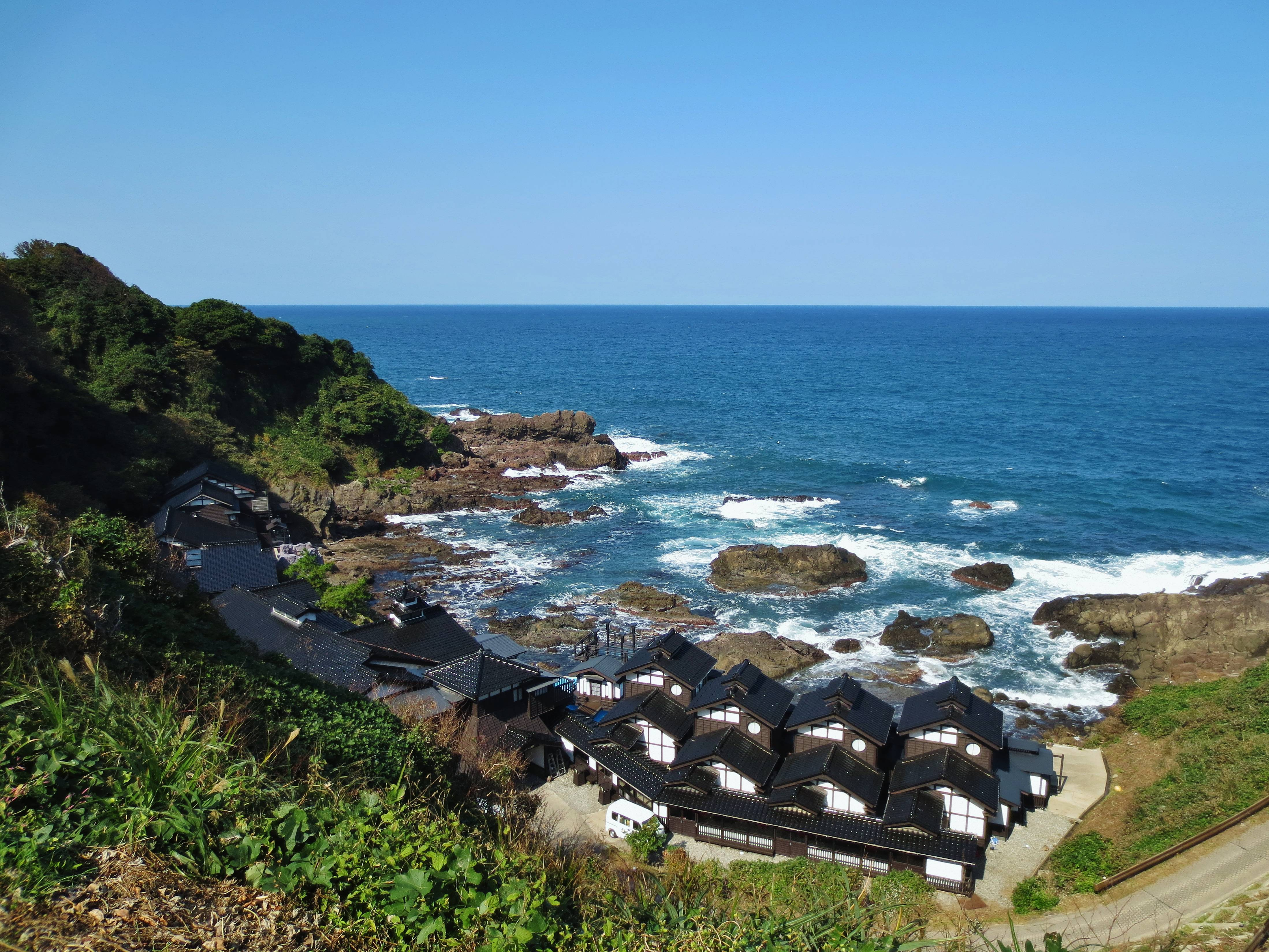 Yoshigaura Onsen.